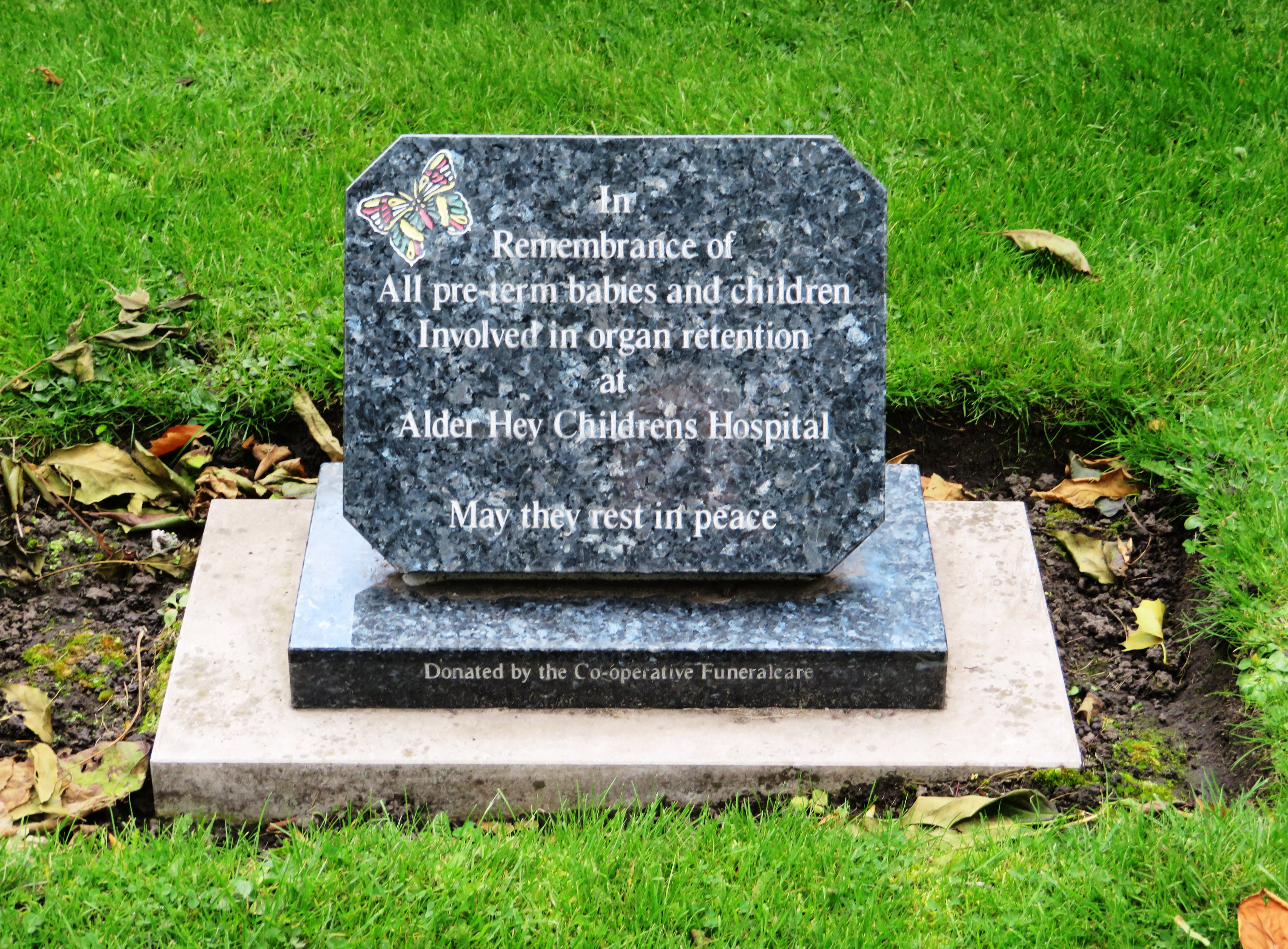 Alder Hey Memorial Tablet in St John's Gardens, central Liverpool